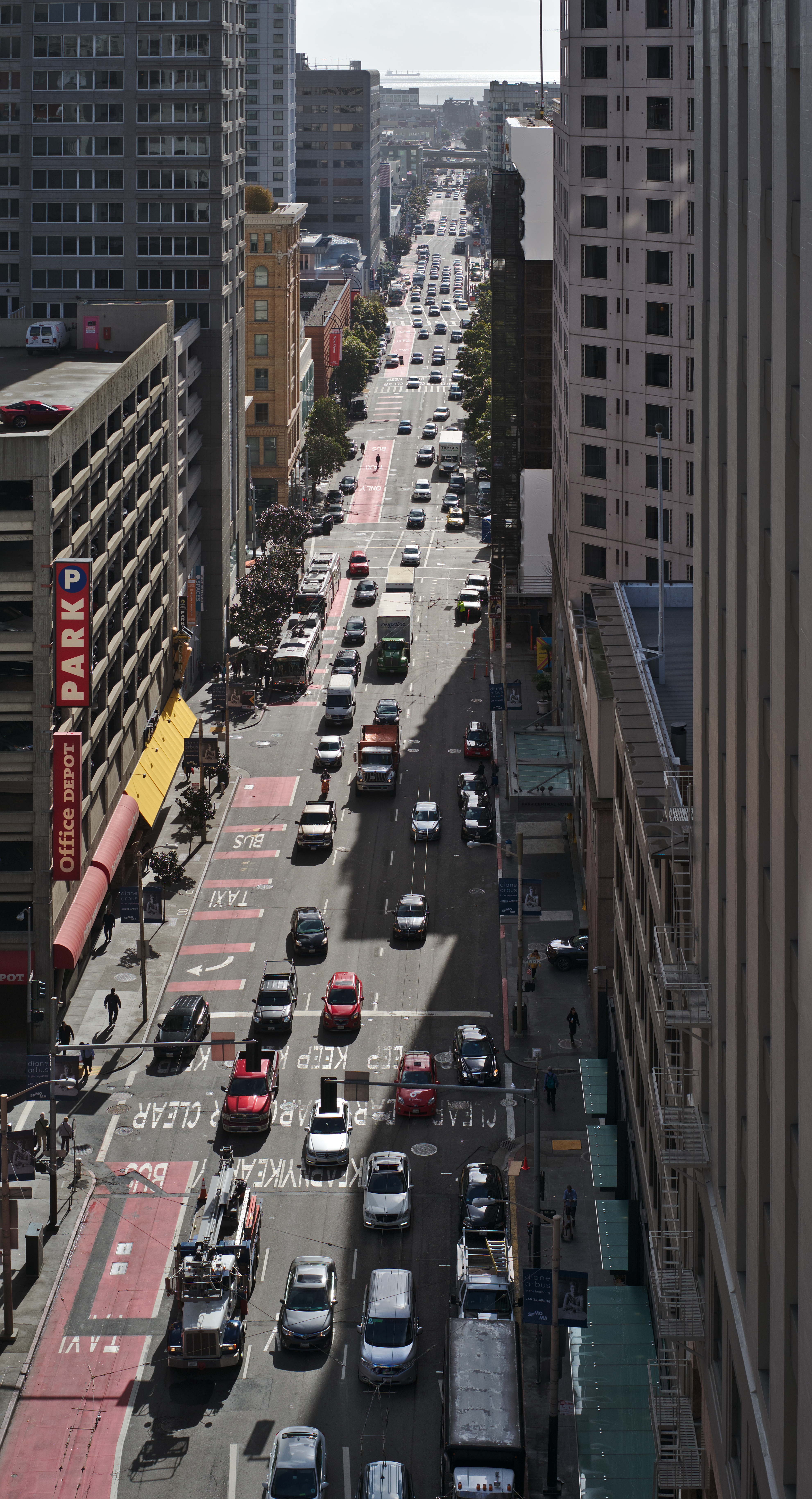 A view 3rd Street in San Francisco as seen from One Kearny St.